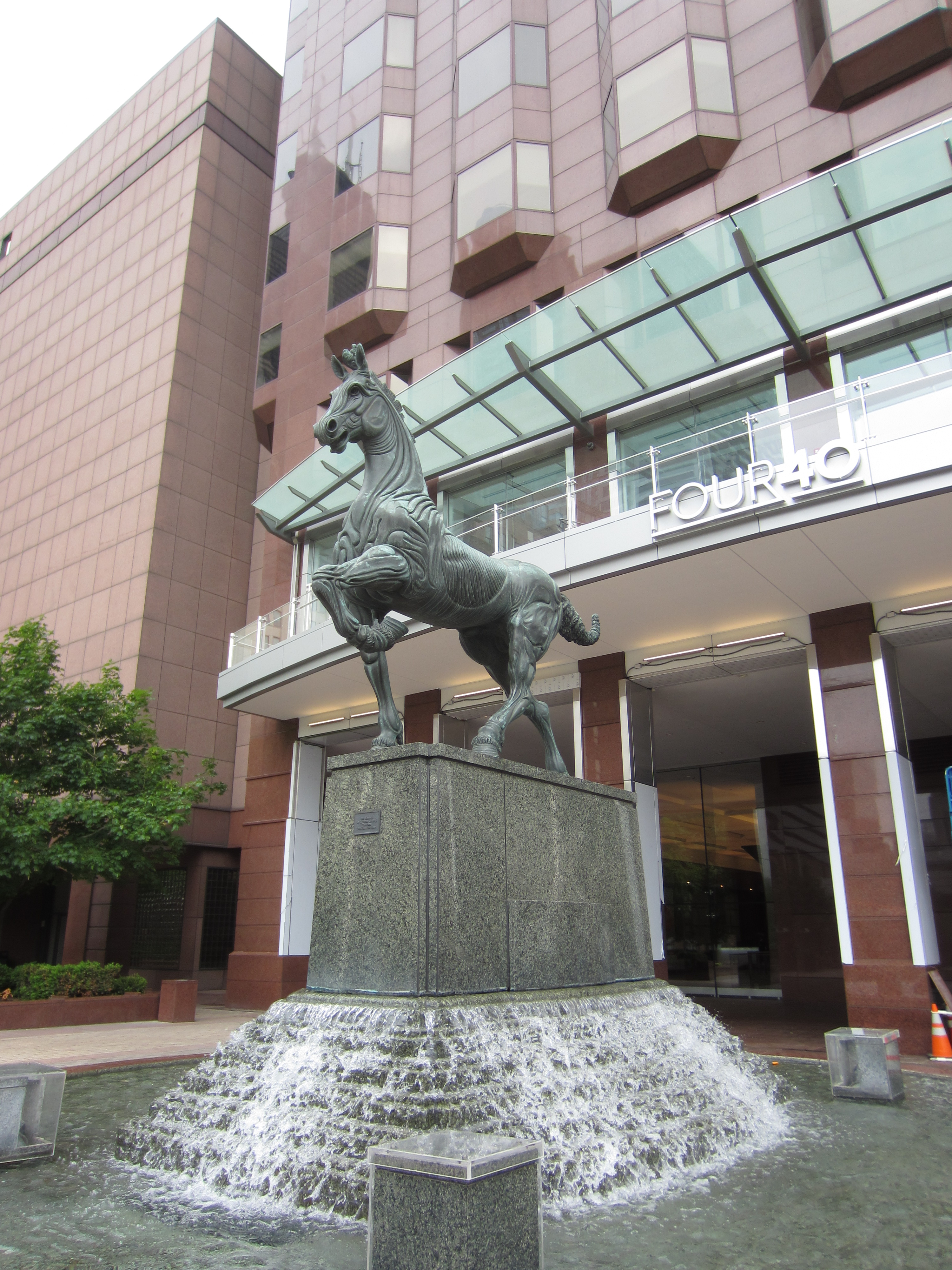 Chicago, Illinois, June 2015